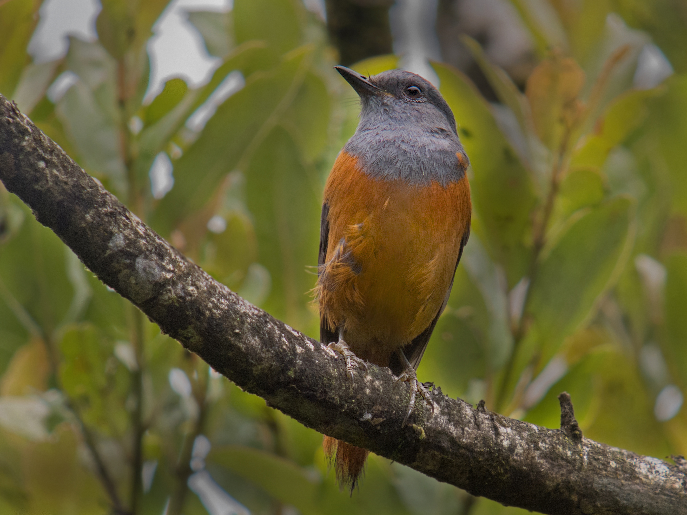 Forest Rock-Thrush (Monticola sharpei), Ranomafana National Park, Madagascar. Photograph taken by digiscoping with Swarovski ATM 80 HD 30 X, Nikon1 V1 + 11-27,5 mm lens (Adapter DCB)